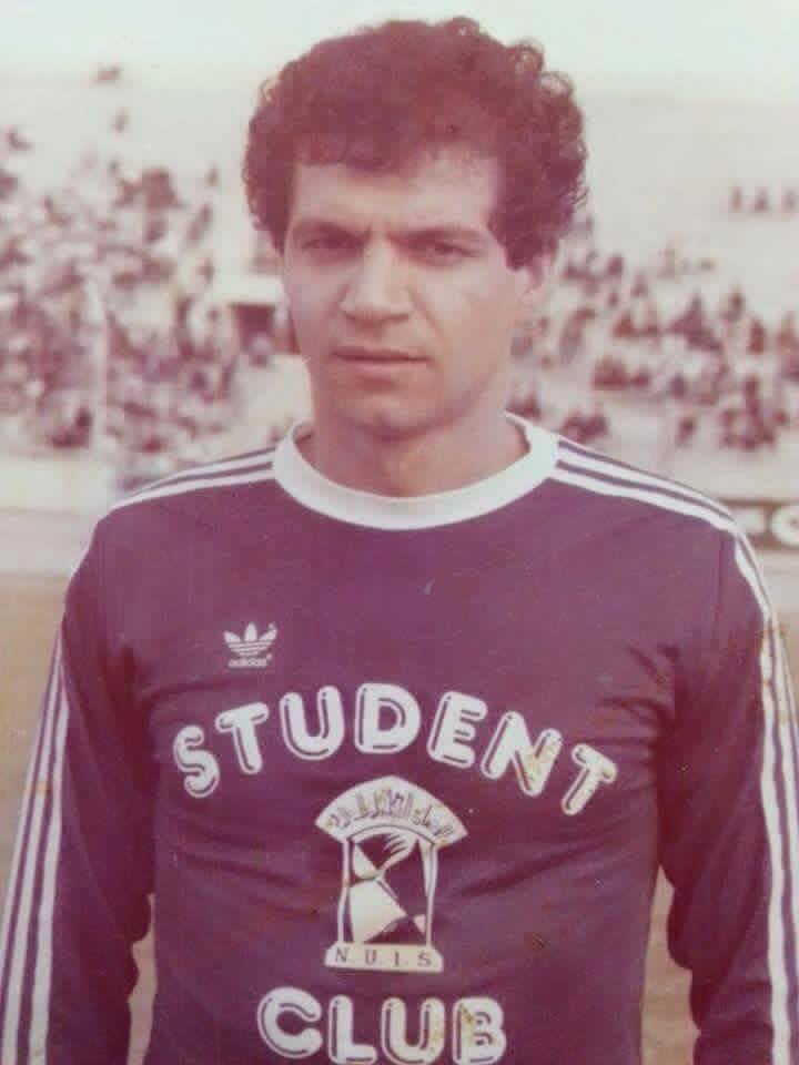 The Iraqi player, Hussein Saeed, playing for Al-Talaba against Al-Rasheed in the 1984-85 season